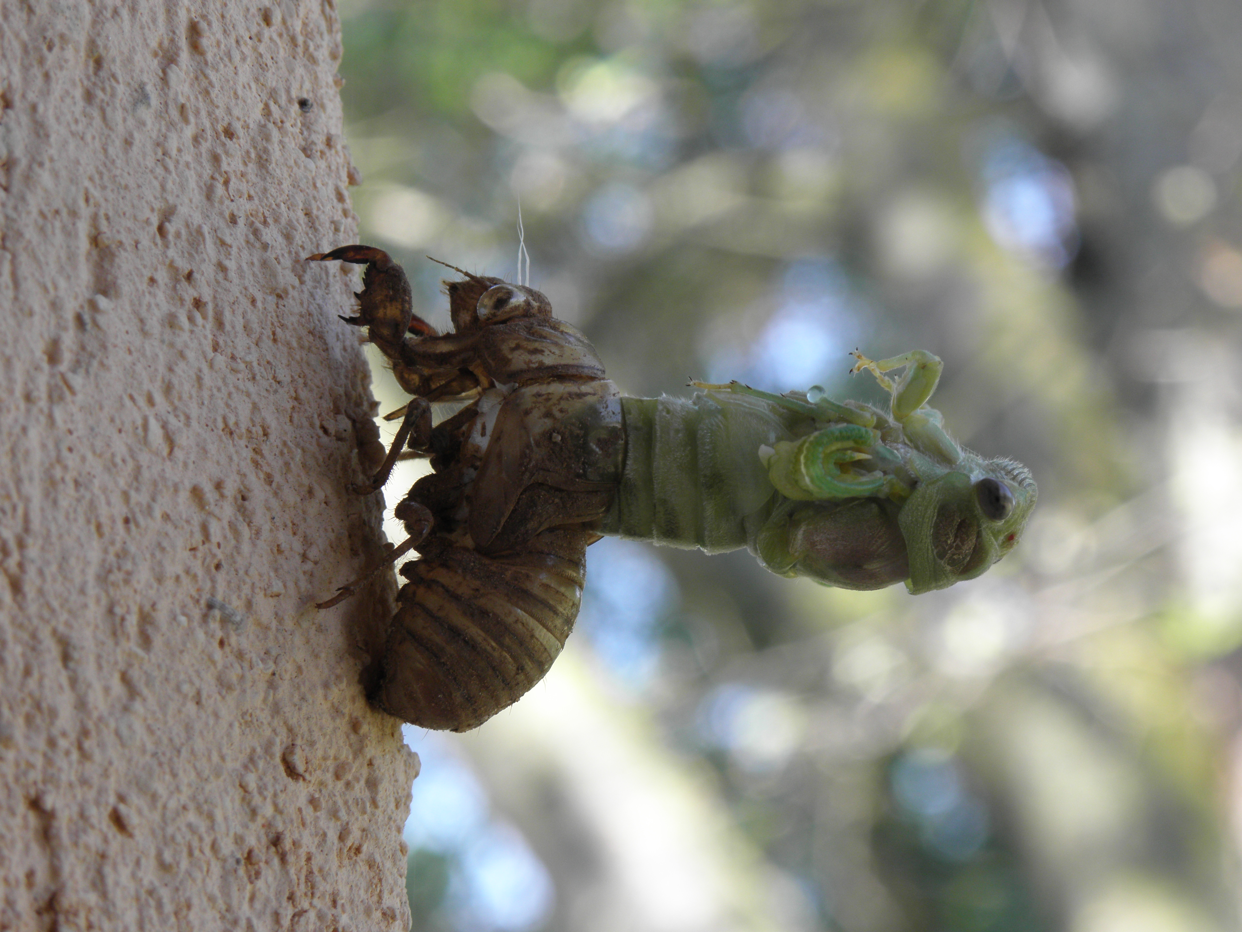 1rst step of the molting of the cicada